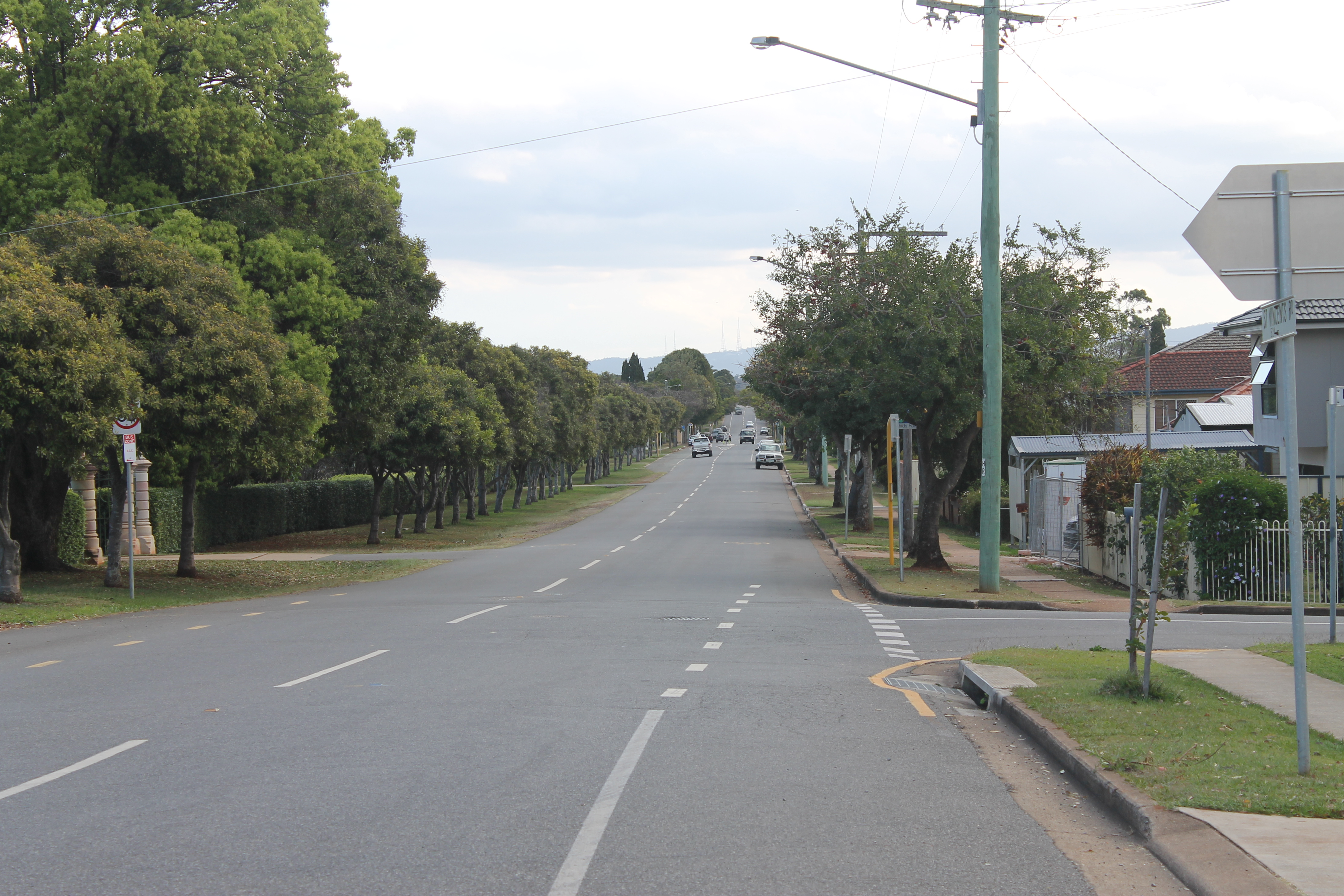 Looking down St Vincents Rd, Nudgee, Queensland, just outside Nudgee Cemetery.